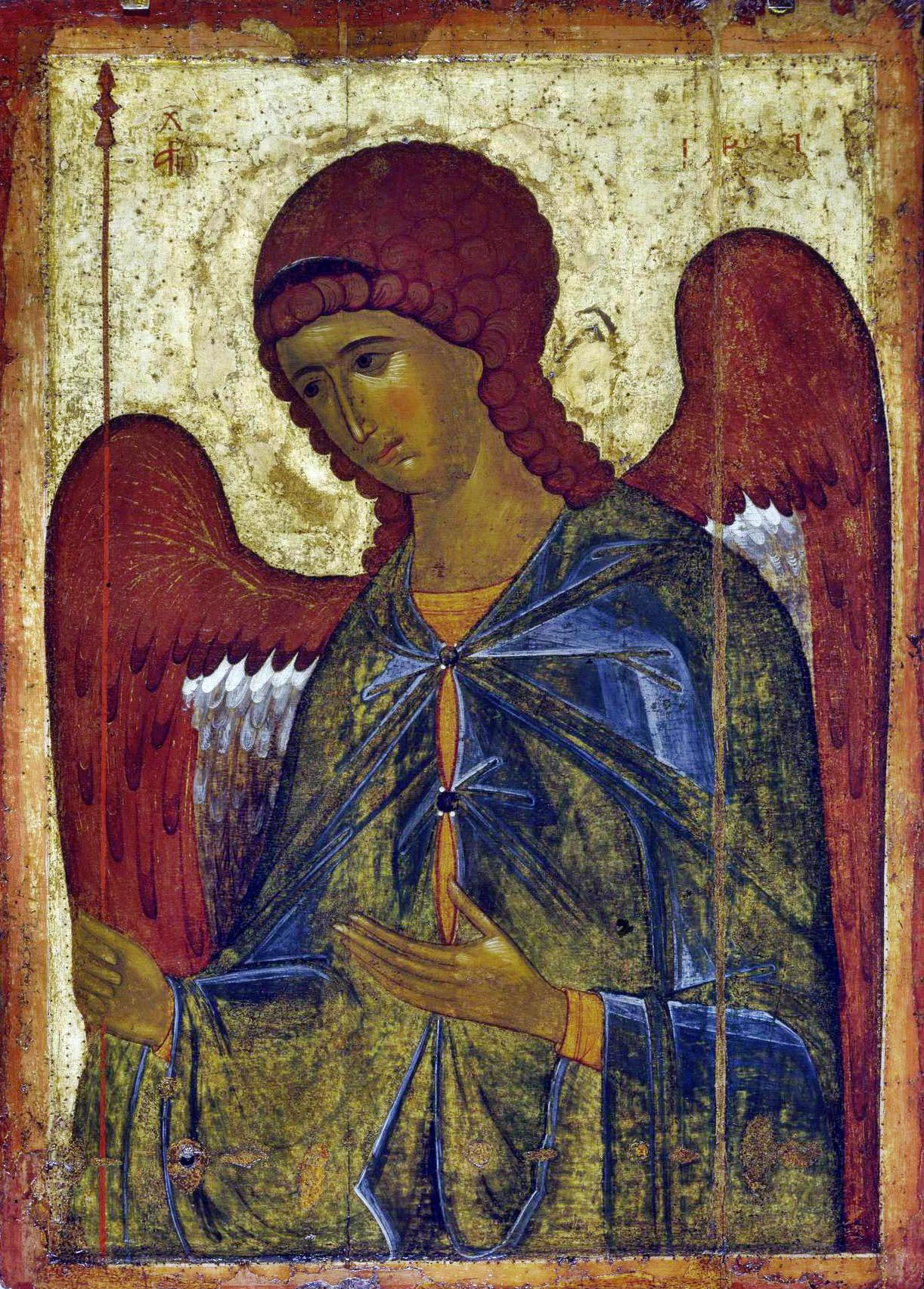 icon, Gabriel. Tretyakov Gallery